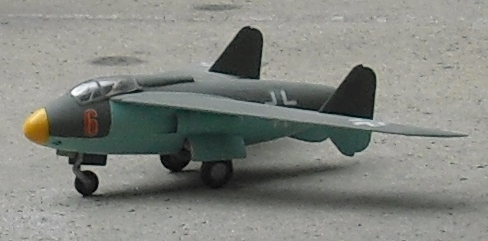 Model photo of Junkers EF 128